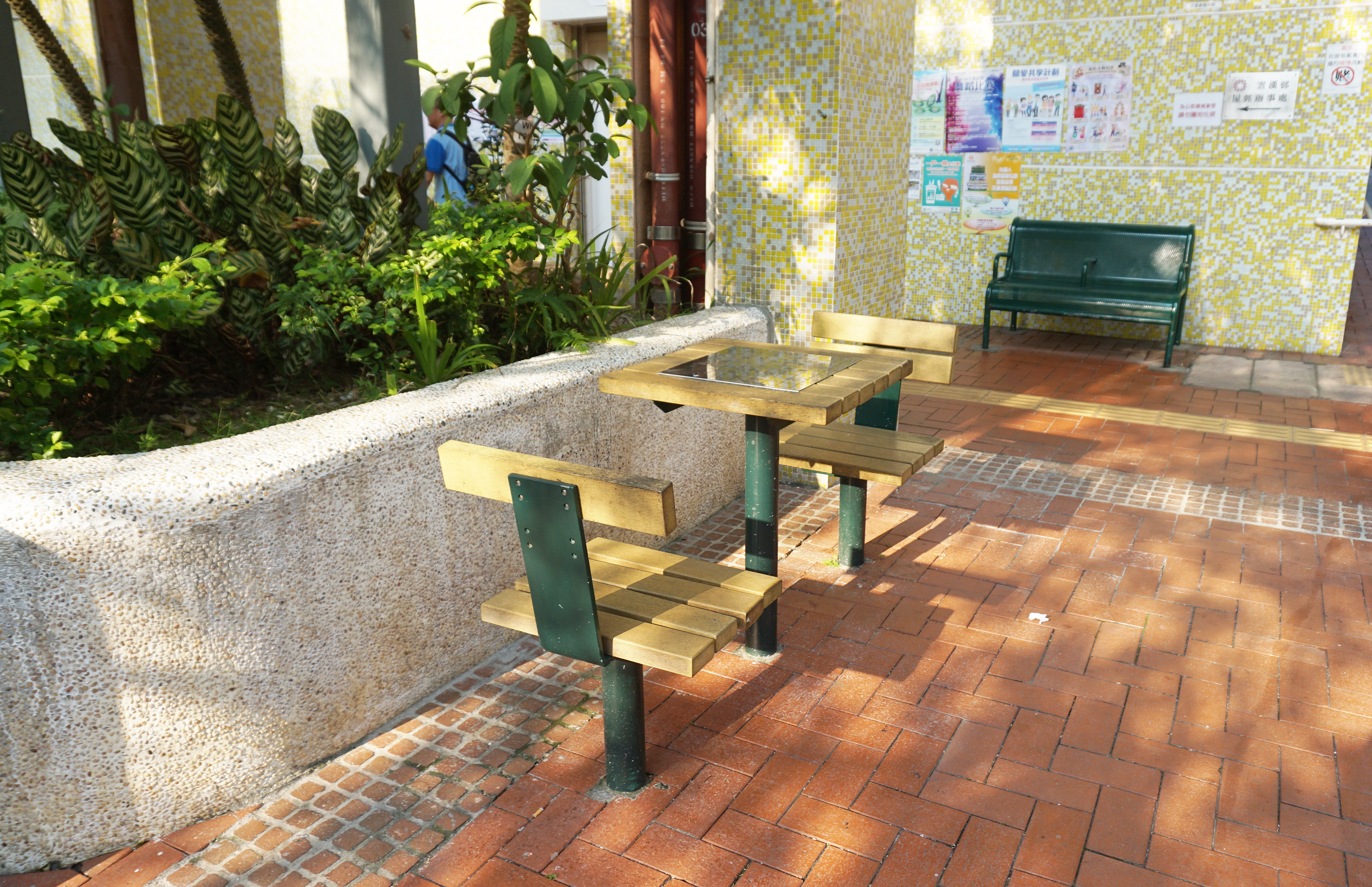 Wan Hon Estate in Kwun Tong, Hong Kong.